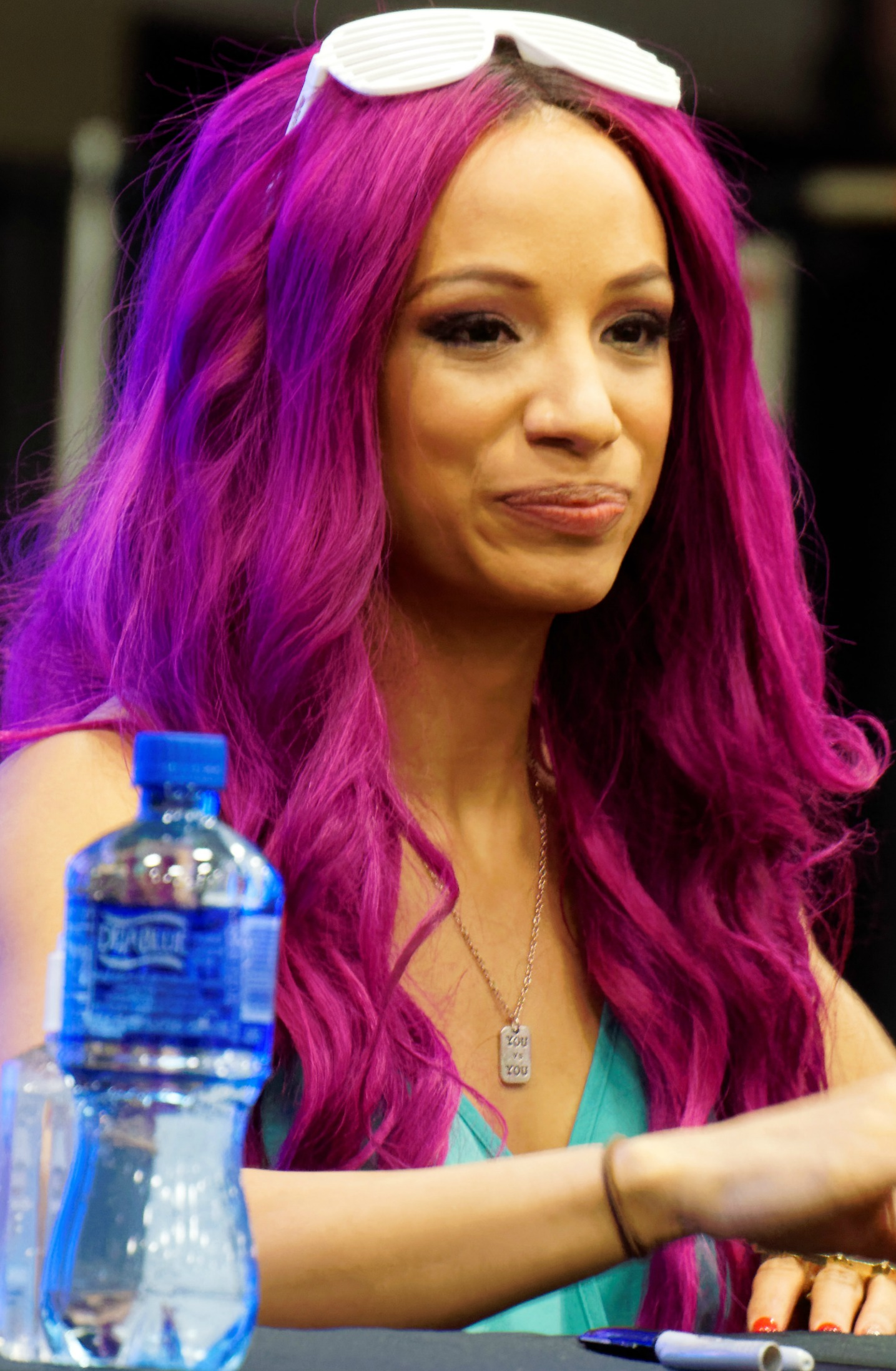 Sasha Banks during the WrestleMania 32 Axxess in April 2, 2016.